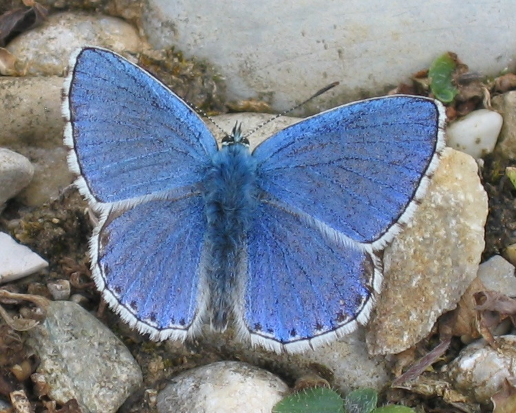 Adonis Blue, male